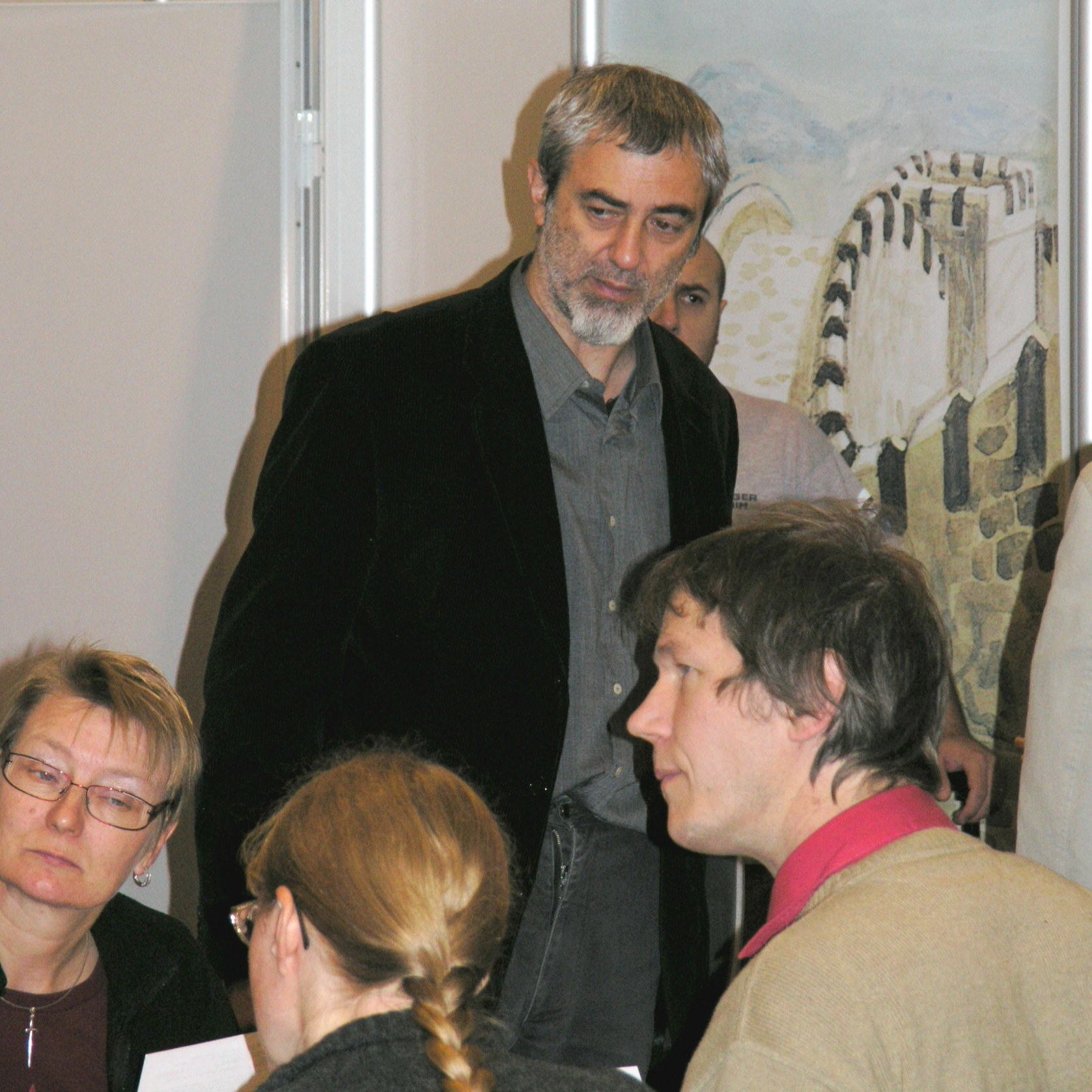 Personality rights warning Although this work is freely licensed or in the public domain, the person(s) shown may have rights that legally restrict certain re-uses unless those depicted consent to such uses. In these cases, a model release or other evidence of consent could protect you from infringement claims.